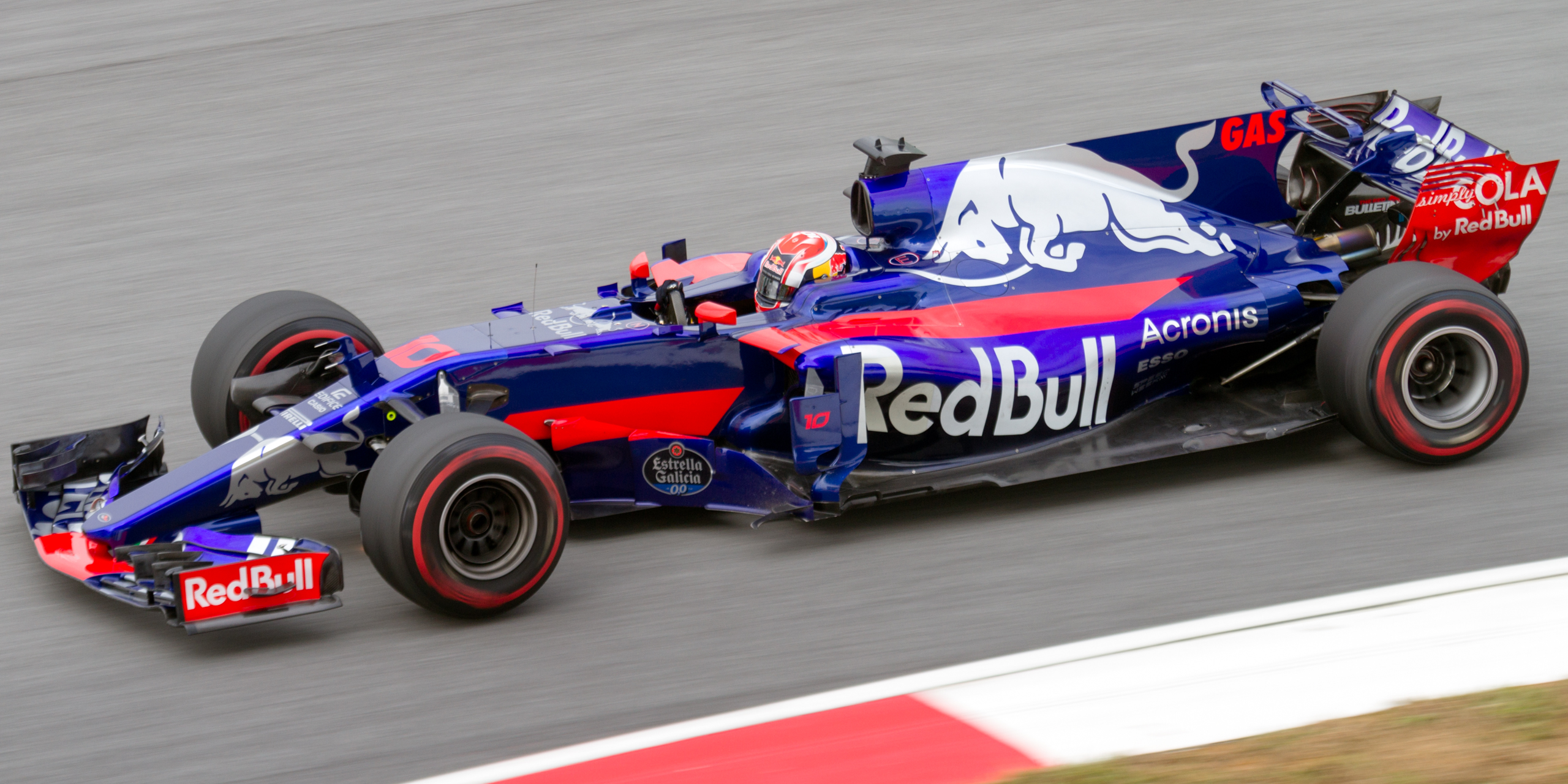 Formula One 2017 Rd.15 Malaysian GP: Pierre Gasly (Toro Rosso)